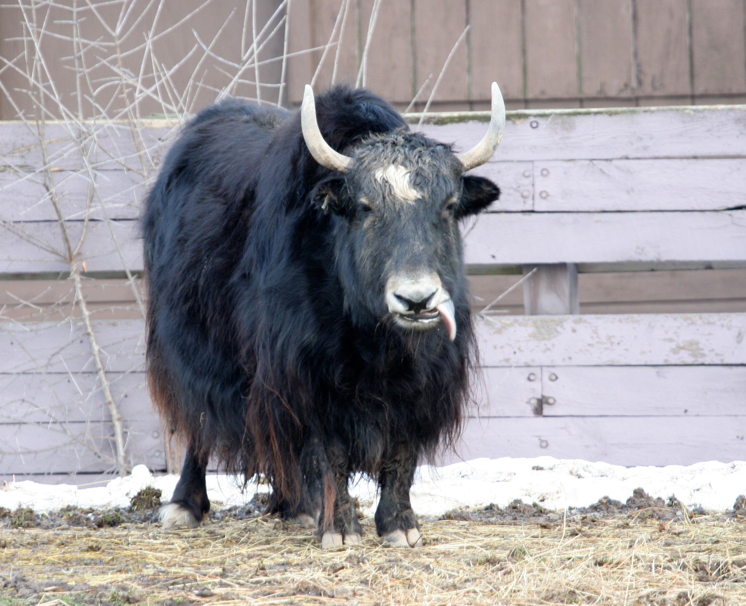 Yak (Bos grunniens) at the Rosamond Gifford Zoo, Syracuse, New York.